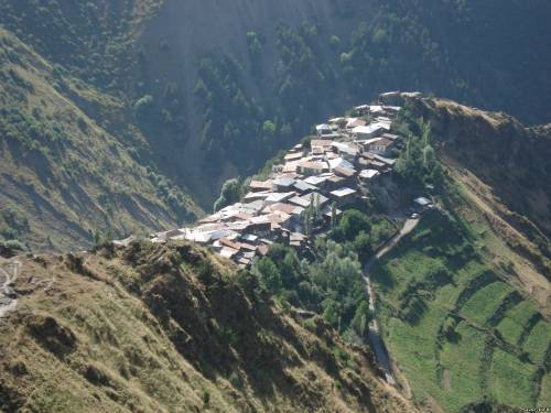 View of the mountain tsakhurian village of Gelmets in Dagestan.